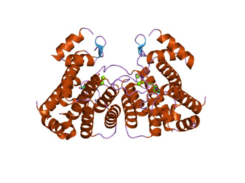 Cartoon representation of the molecular structure of protein registered with 1w2y code.